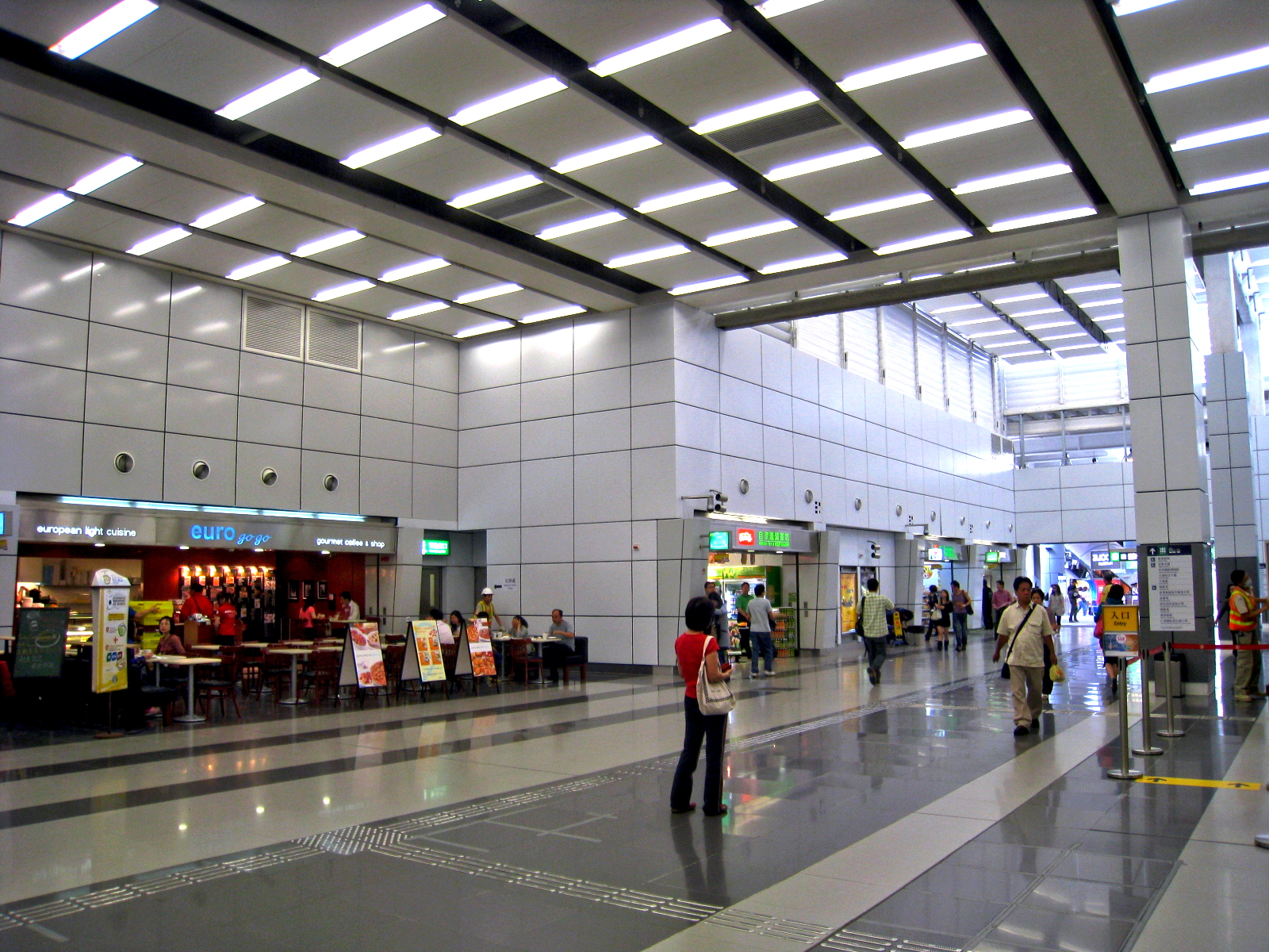 Shops on MTR Tai Po Market station concourse